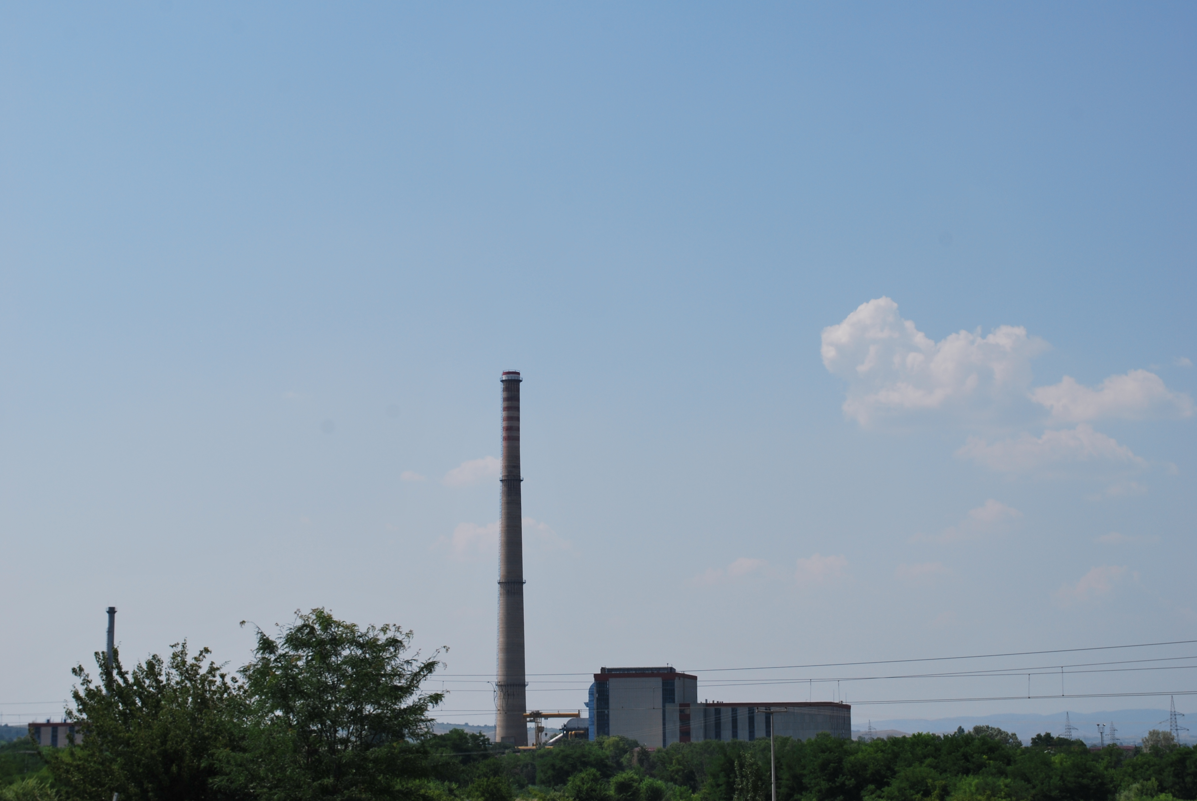 TEC Negotino, Macedonia